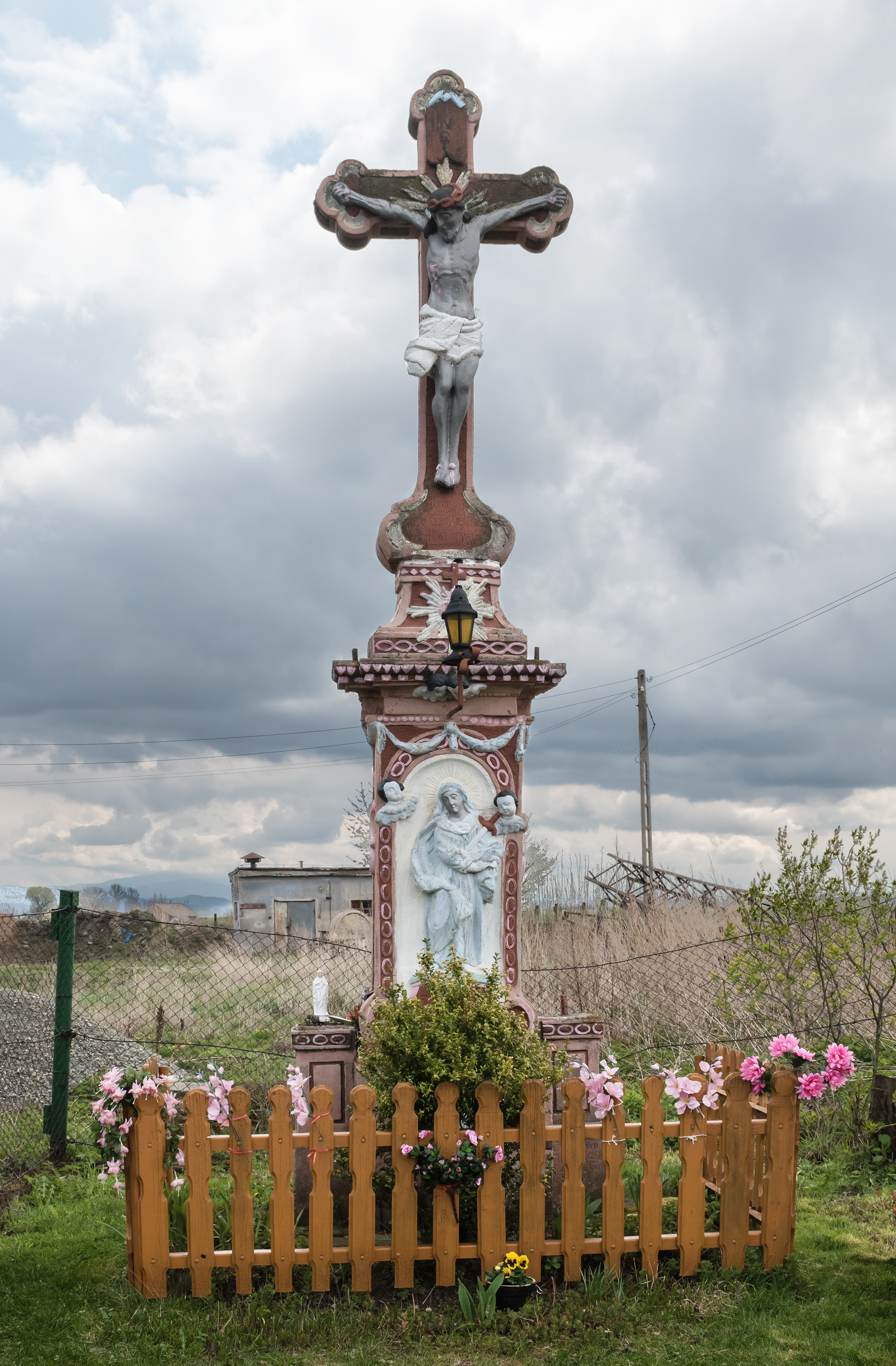 Wayside cross dates back to 1803, in Ruszowice